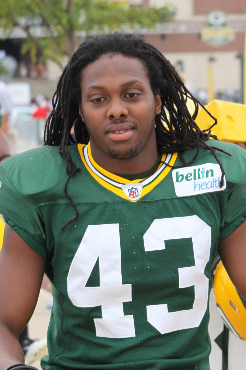 Green Bay Packers safety M.D. Jennings, August 5, 2011, Green Bay Wisconsin. Photograph by Gabriel Cervantes